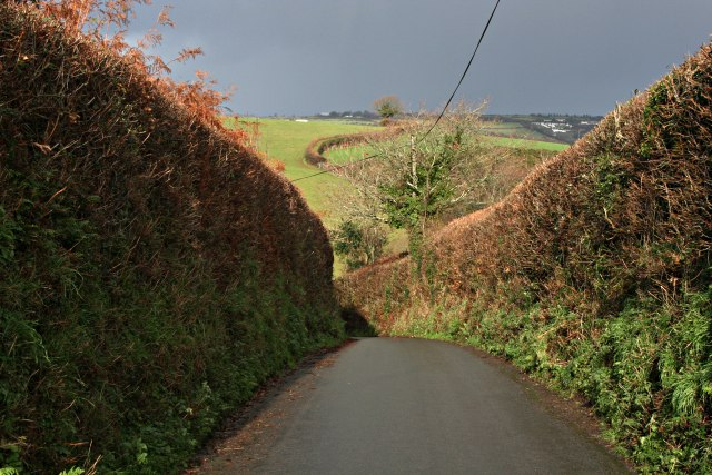 Down to the Valley Below A country lane with high Cornish hedges heads down the steep valley side.